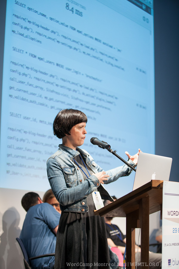 Élise Desaulniers giving a talk at WordCamp Montréal on 29 June 2013 The text in this image should be transcribed and included in the description on this page. See also Transcription . The Google OCR tool may be of use in transcribing images.